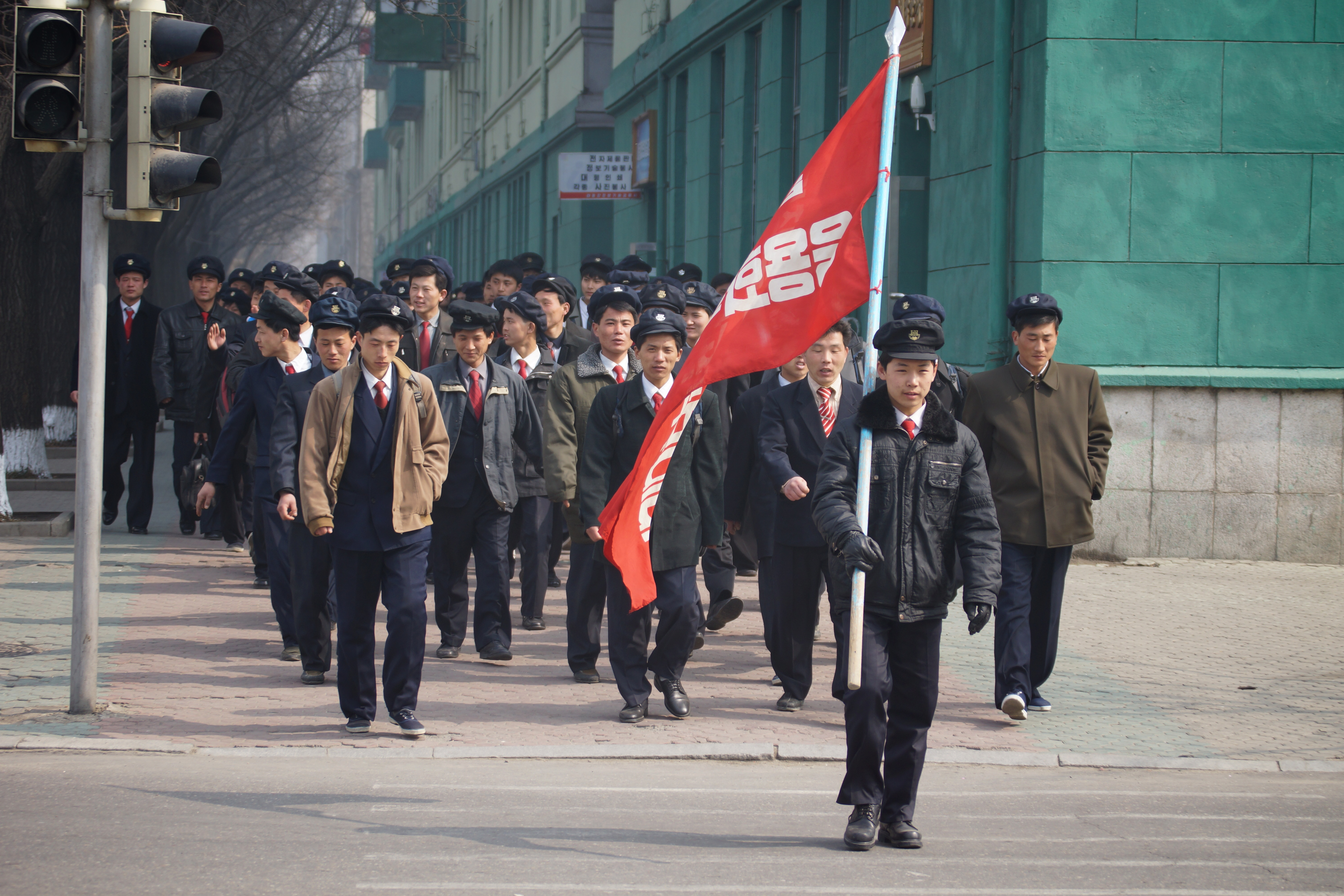 April 2012 trip to DPRK, North Korea for the 100th year birthday celebrations for Kim Il Sung - check out my North Korea blog at